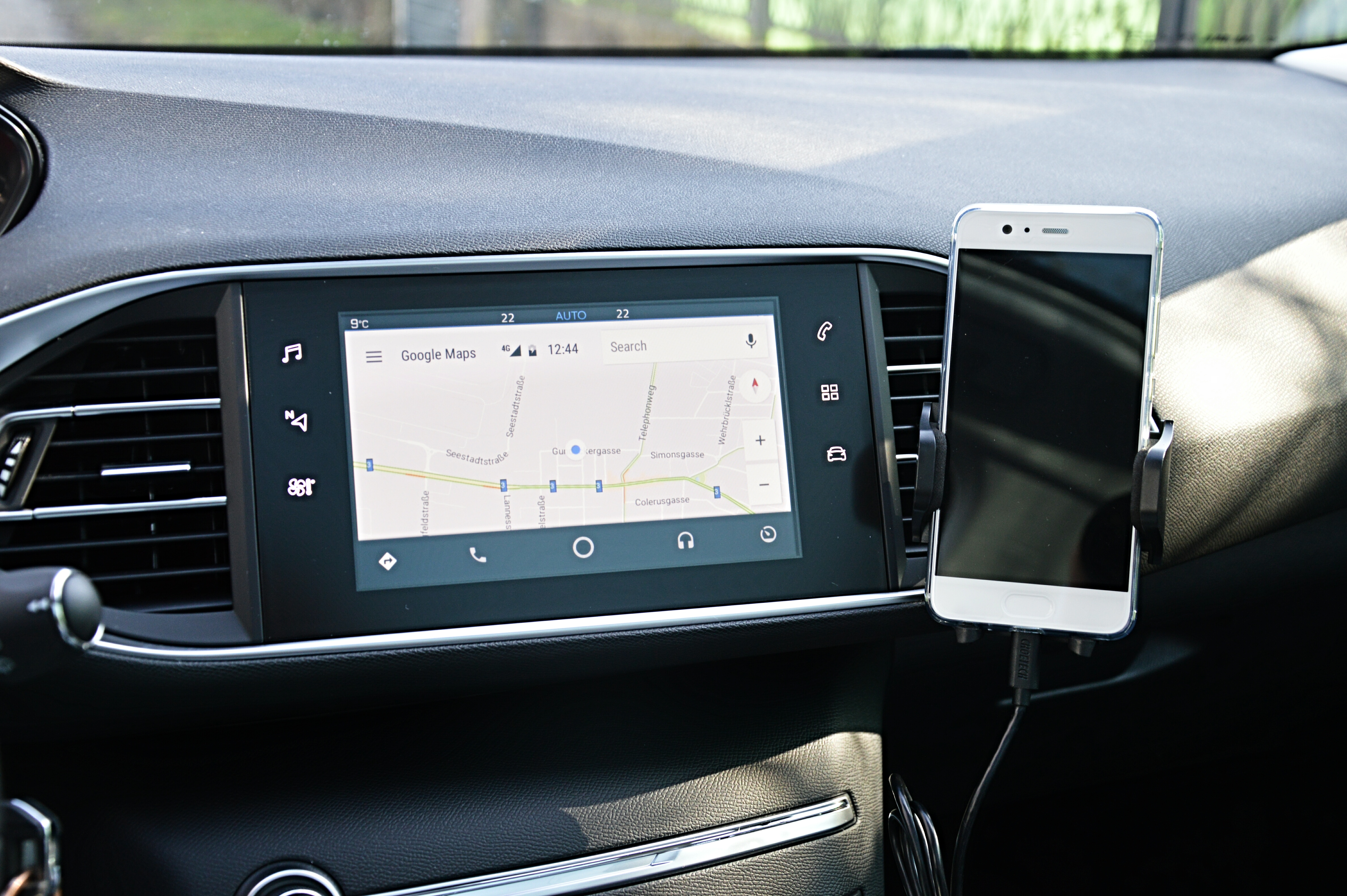 Android Auto in usage